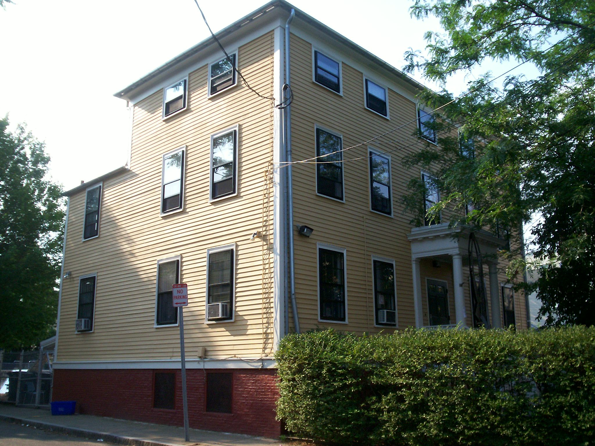 Margaret Fuller House in July 2008 (older image is prior to renovations), located at 71 Cherry Street in Cambridgeport, Massachusetts. Birthplace and childhood home of Margaret Fuller.